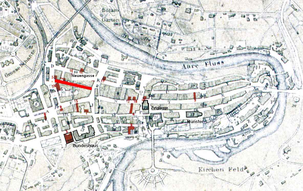 City plan of Bern, 1882. Scanned from BERN: Eine Stadt vor 100 Jahren, Bilder und Berichte; Peter Lauenberger, Emil Erne; München 1997; p. 7. Originally from Bern und seine Umgebungen, C.H. Mann, 1882 in the Alpines Museum of Bern. Due to the age of the image, it must be assumed that the author has been dead for more than 70 years. Copyright protection has therefore lapsed under Swiss copyright law (Art. 29 par. 3 URG).